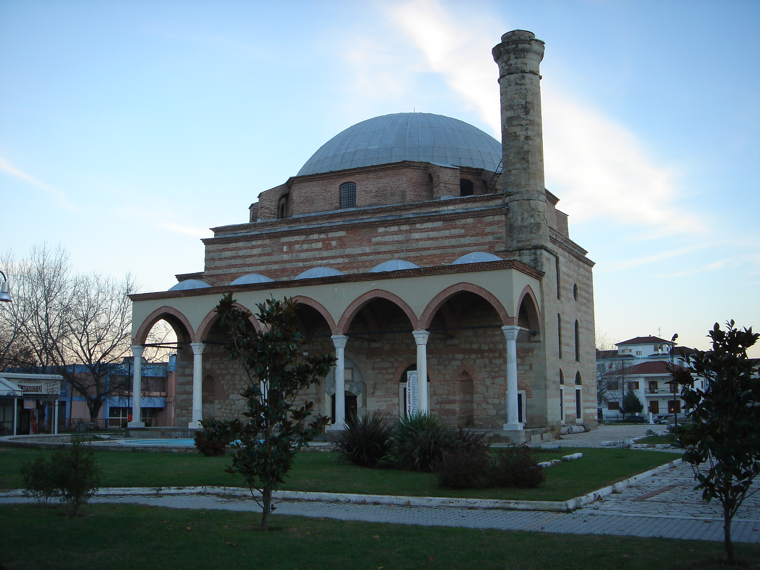 Osman Shah's mosque at Trikala, known also as Koursoum Mosque, It was built in the late 16th century. Recently restored after a long period of disuse.